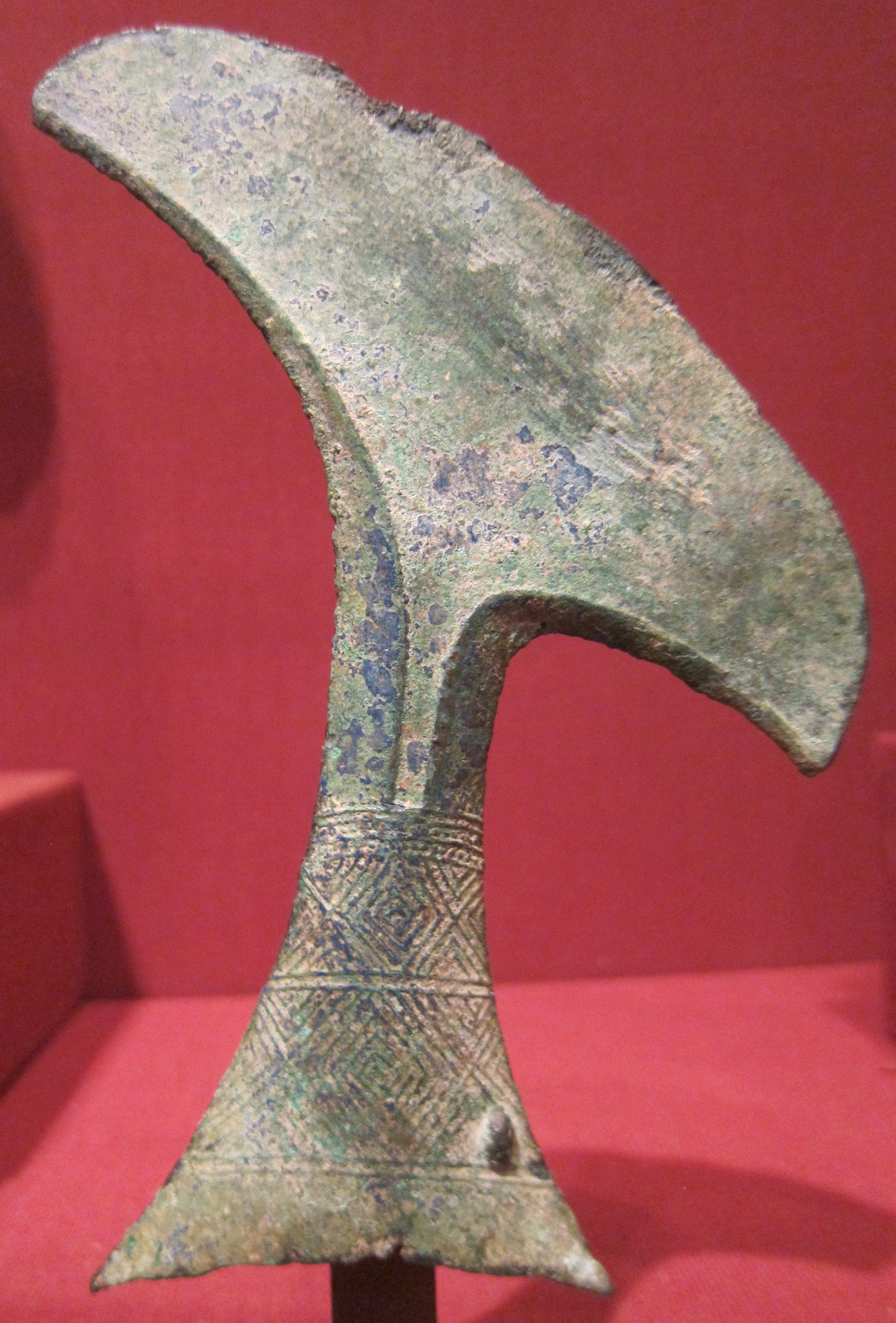 Socketed crescentic blade, Java, 2nd century BCE, bronze, Honolulu Museum of Art